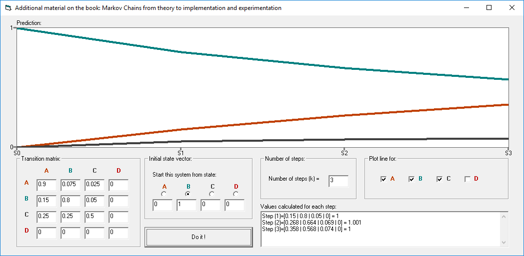 Markov Chains prediction on 3 discrete steps based on the transition matrix from the example from left.